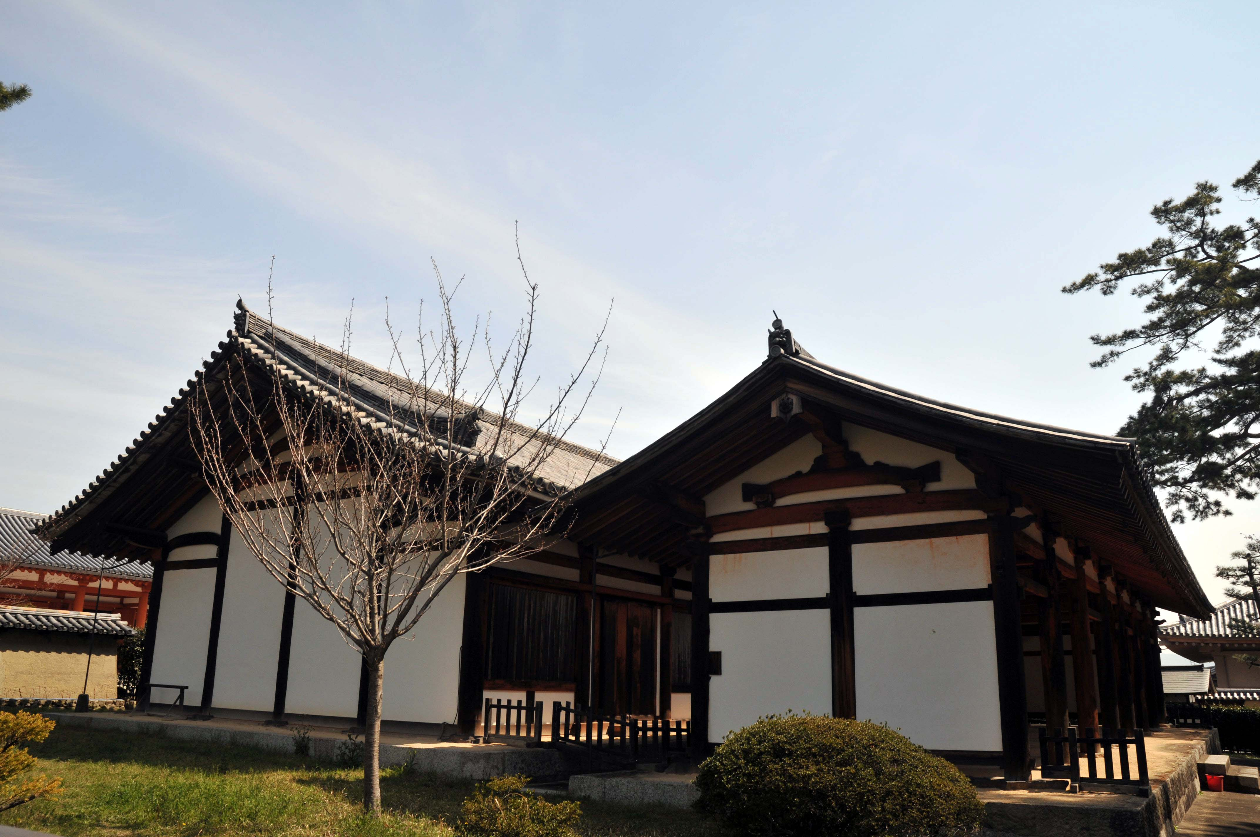 Hosodono(right,Japan's national important cultural property) and Jikido(left,Japanese national treasure)